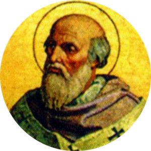 Portait of Pope Gregory II in the Basilica of Saint Paul Outside the Walls, Rome